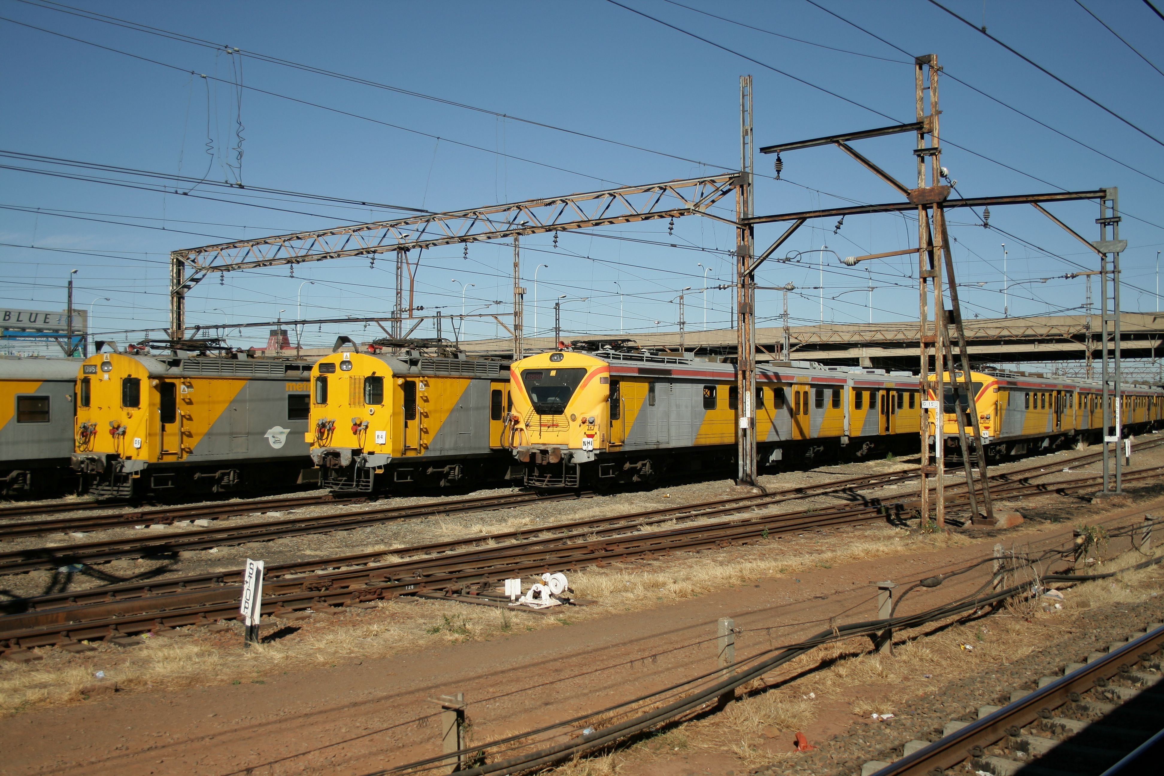 Metrorail units at Braamfontein, Johannesburg, South Africa